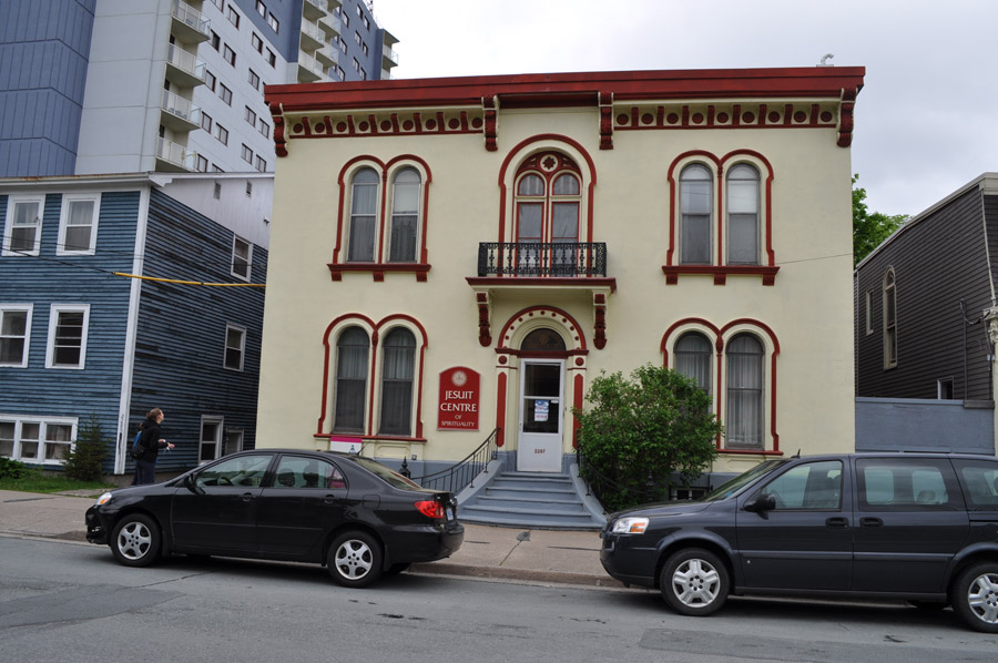 Jesuit Spirituality Centre in Halifax, Nova Scotia